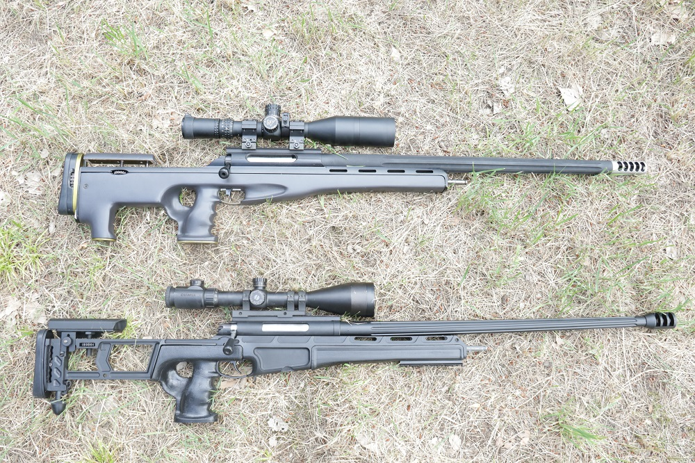 satevari sniper rifles, made by georgia stc delta